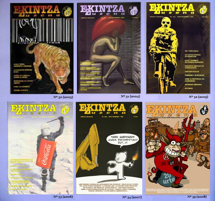 Libertarian magazine covers Ekintza Zuzena between 2003 and 2008.